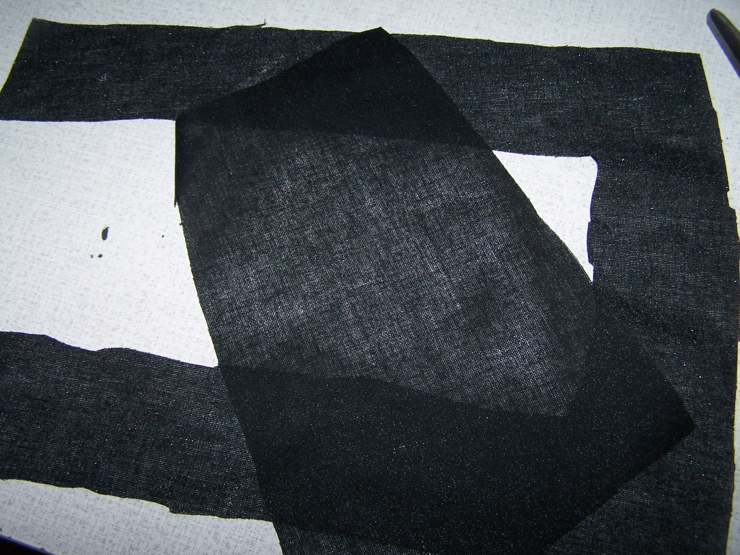 Adhesive interlining